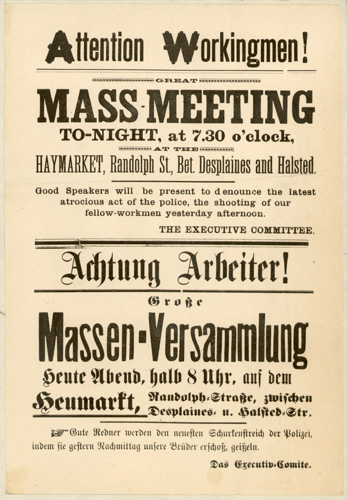 A bilingual English-German flier notifying people of a rally in support of striking workers (Chicago, 1886).